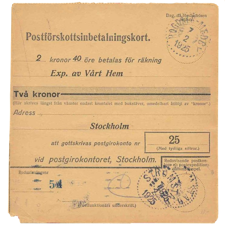 Swedish postal cash on delivery card from 1925